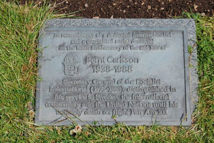 Memorial stone dedicated to the most prominent of the 270 people killed at Lockerbie on 21 December 1988: Assistant Secretary-General of the United Nations and UN Commissioner for Namibia, Bernt Carlsson. The inscription reads: "In remembrance of a dedicated internationalist and a committed social democrat on the tenth anniversary of the sad loss of Bernt Carlsson (1938-1988), Secretary-General of the Socialist International (1976-1983), distinguished in his service to Sweden, the international community and the United Nations until his untimely death on flight Pan Am 103." (Photo by George DeBaly, June 2009, in the Garden of Remembrance at the Lockerbie Air Disaster Memorial in Dryfesdale Cemetery.)